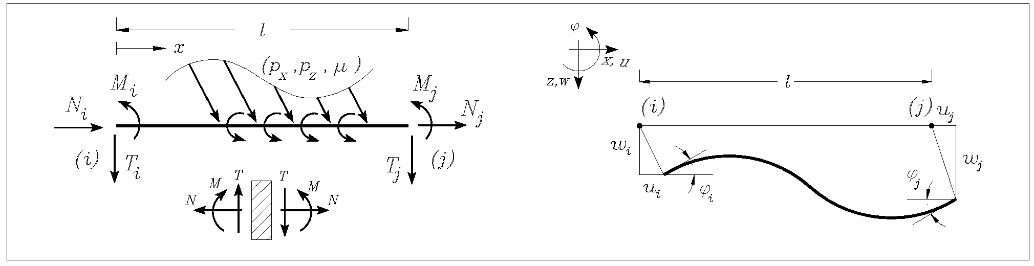 Local description of a beam